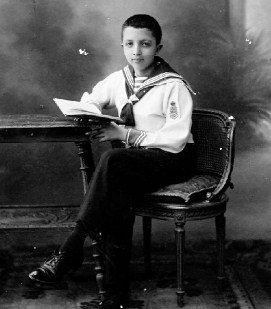 Roberto Weiss cerca 1916